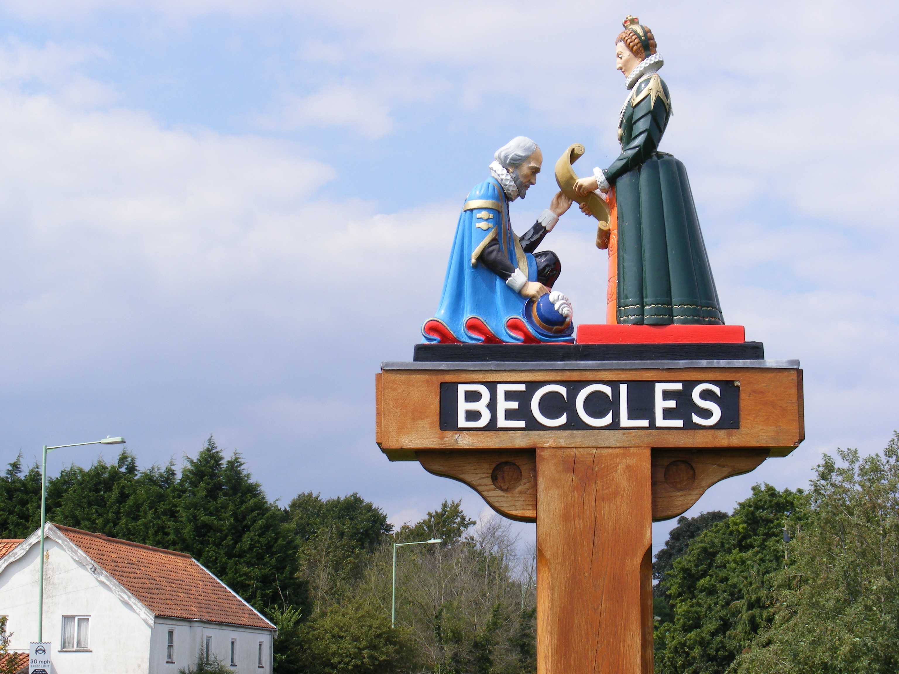 Beccles Town Sign